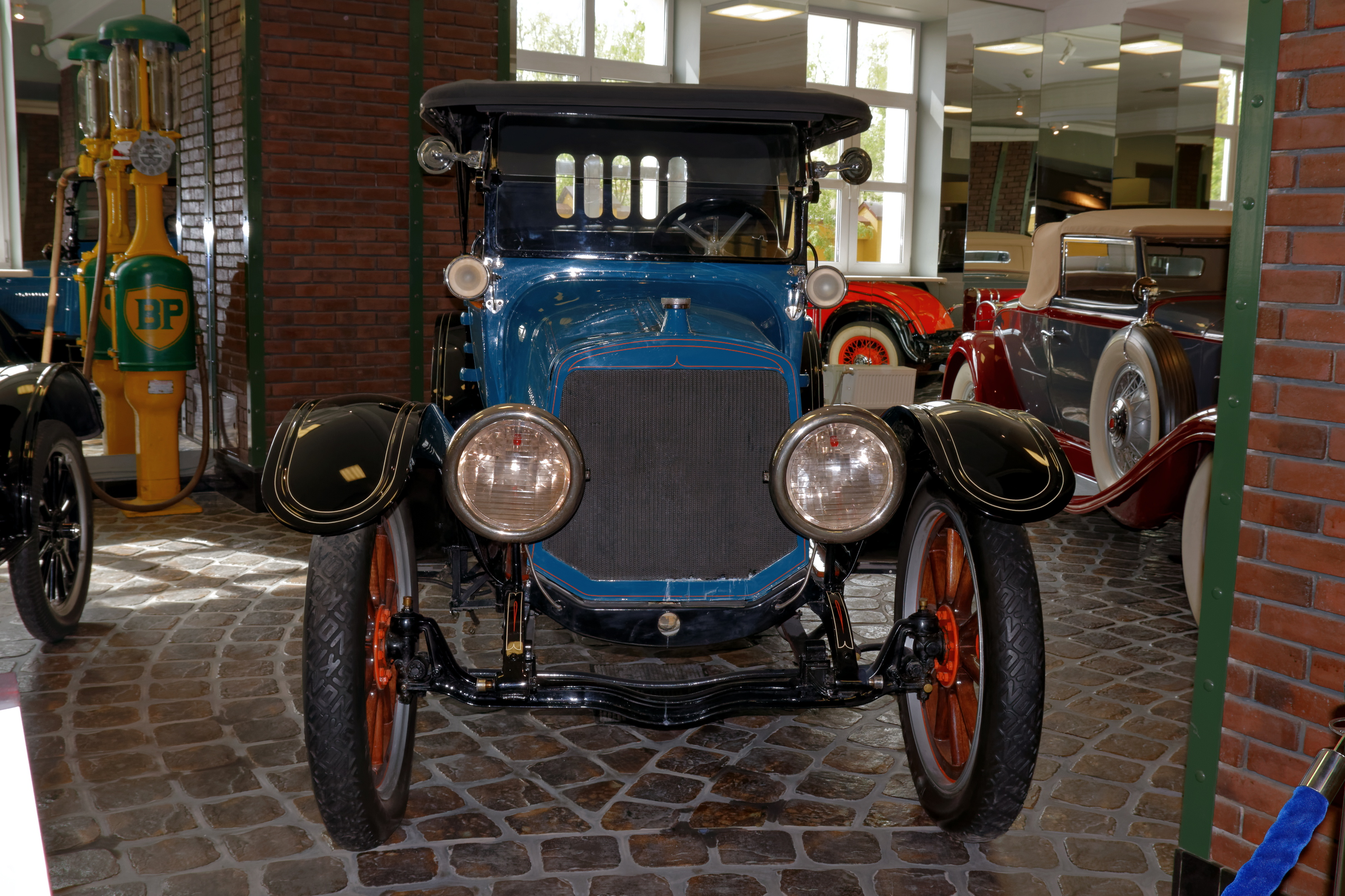 Arkhangelskoye. Vadim Zadorozhny’s Vehicle Museum. Lozier Type 77